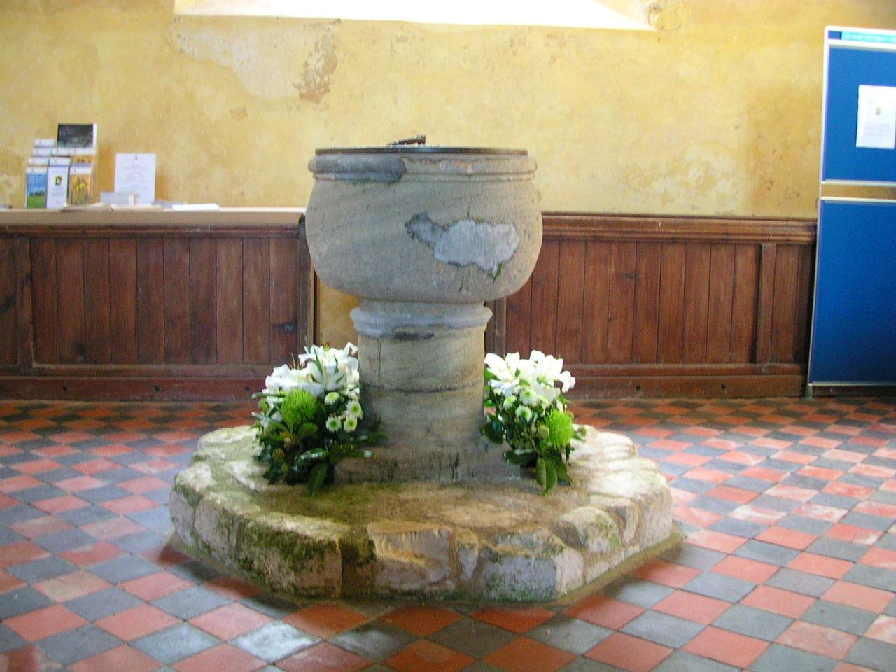 North Stoke Church font, West Sussex.